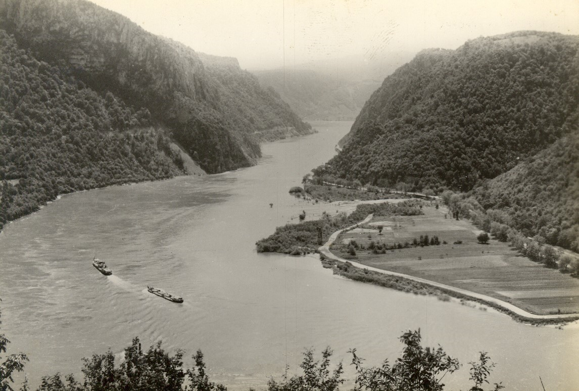 Iron Gate (Danube).